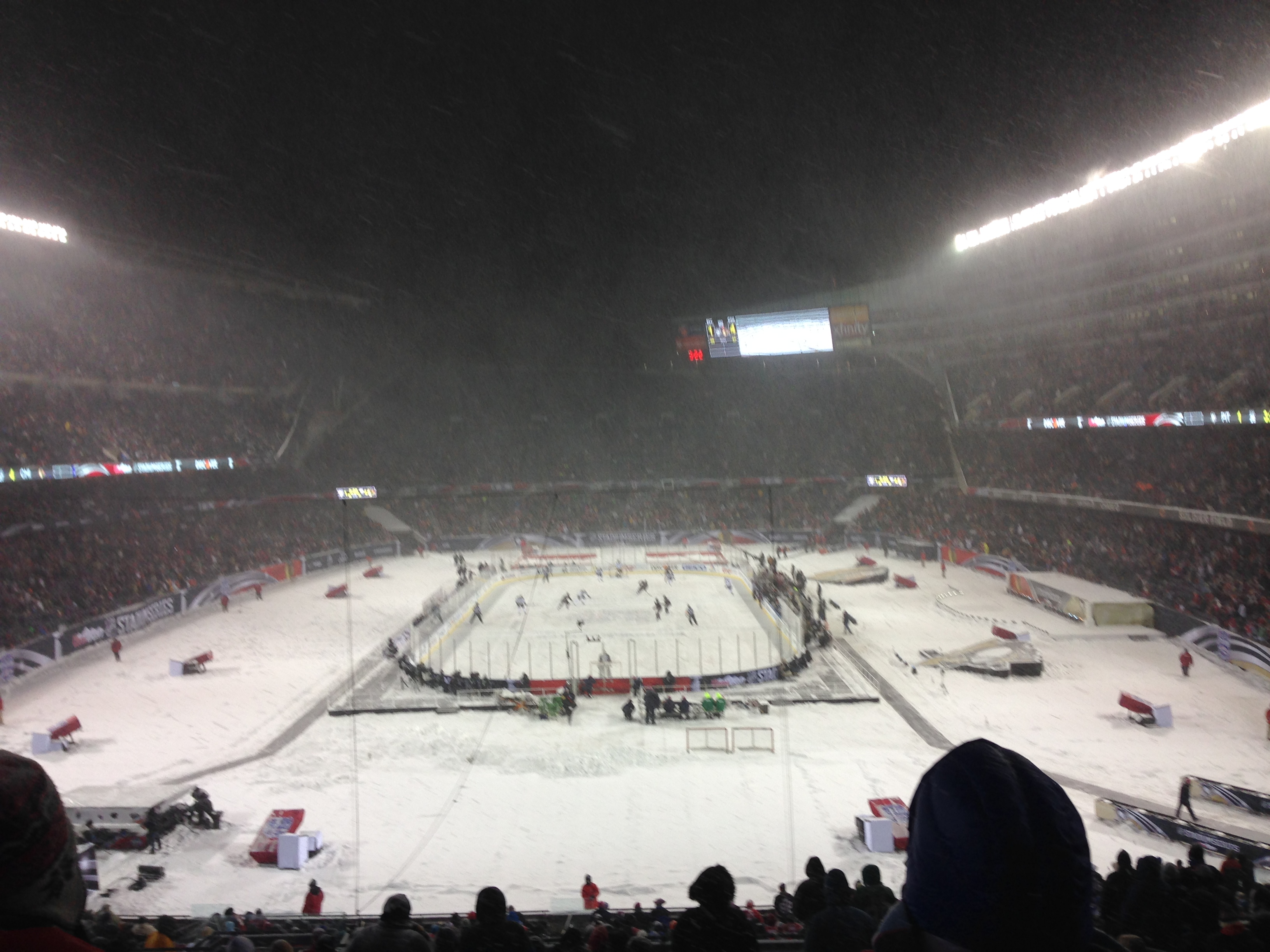 Hawks vs. Pens during the game.